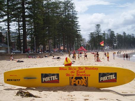 Lifeguard's Rescue Board.Sponsored by FOXTEL."When we are not watching the beach, we're watching FOX."